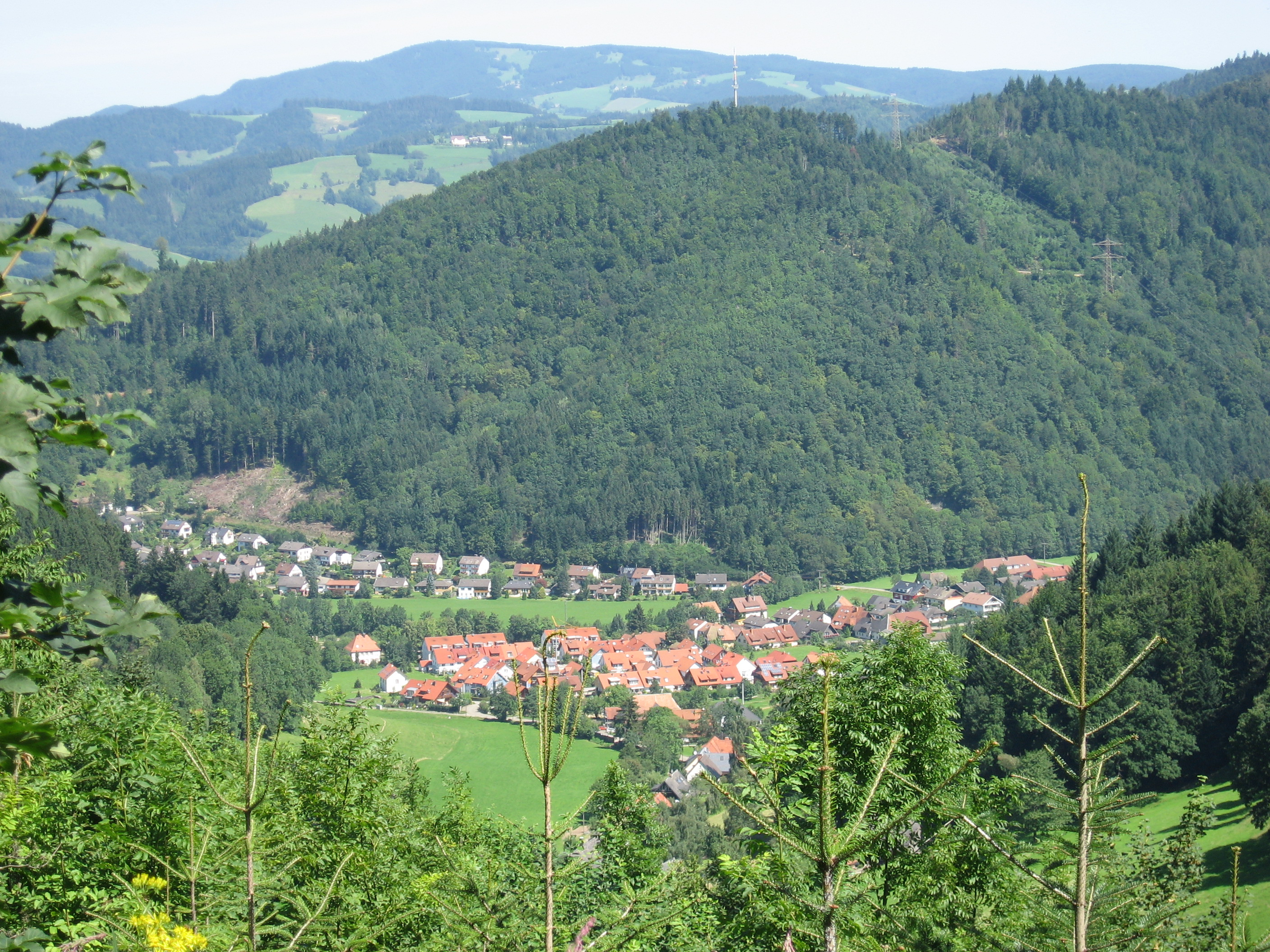 Buchenbach, Baden-Württemberg, Germany, photographed from the south (and above), on the Schwarzwald-Querweg Freiburg–Bodensee long-distance footpath